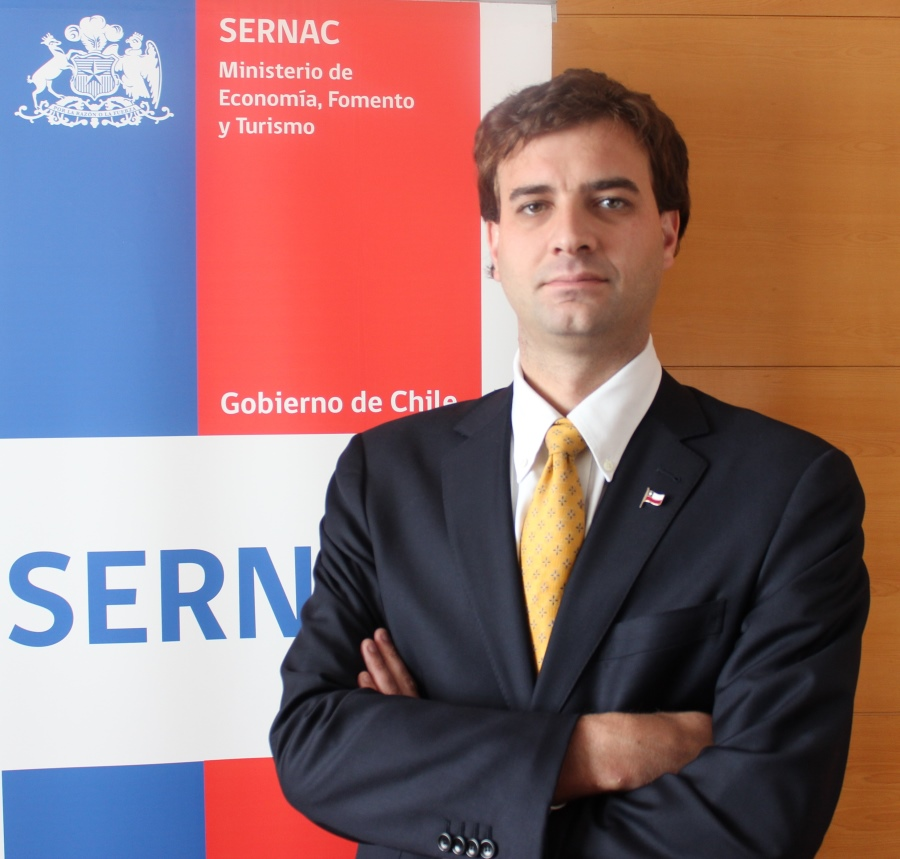 Official photo of Juan José Ossa Santa Cruz as National Director of Sernac in 2013